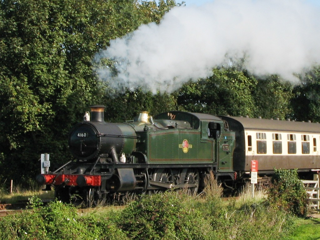 5101 Class 2-6-2T number 4160 accelerates away from Dunster station on the last leg of its journey to Minehead on the West Somerest Railway, England.